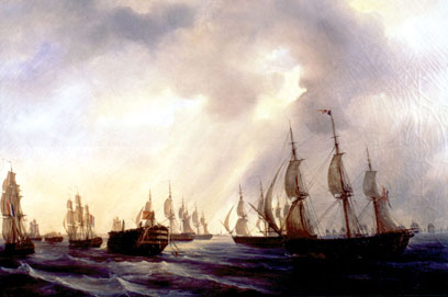 Return to Rota